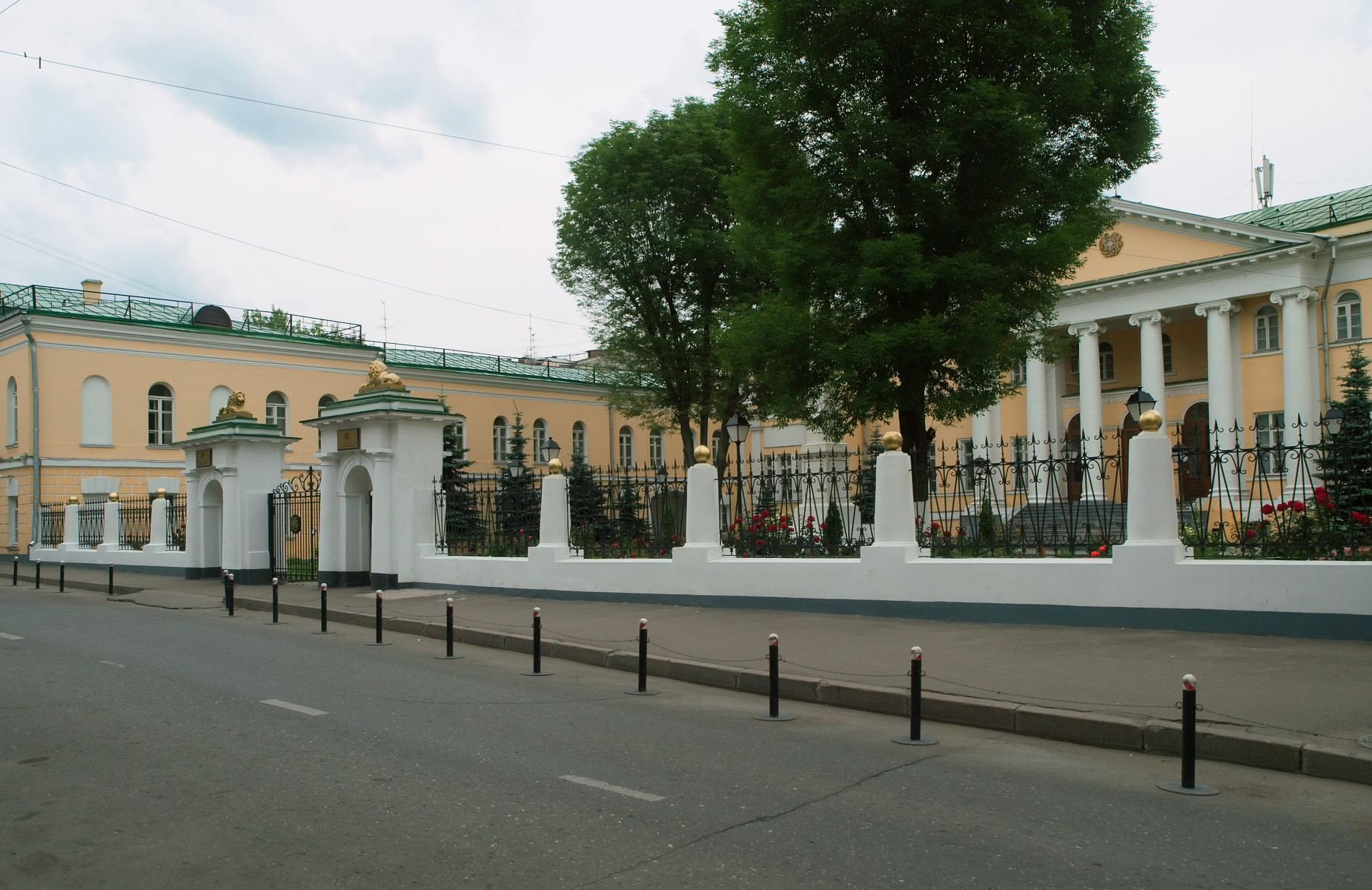 Armyansky Lane, Moscow.Former Lazarev institute of Oriental studies, a hub of Armenian diaspora in early XIX century - present-day Embassy of Armenia. Built in many stages in 18th-19th century; facade outline designed in 1814 and completed in 1823. The obelisk of pig iron (Lazarevs owned iron mills in Perm) was raised in 1822.